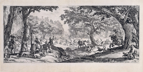 The Large Hunt. Etching, 9 13/16 x 19 5/16 in. (24.9 x 49.1 cm) (sheet). State i/iv.